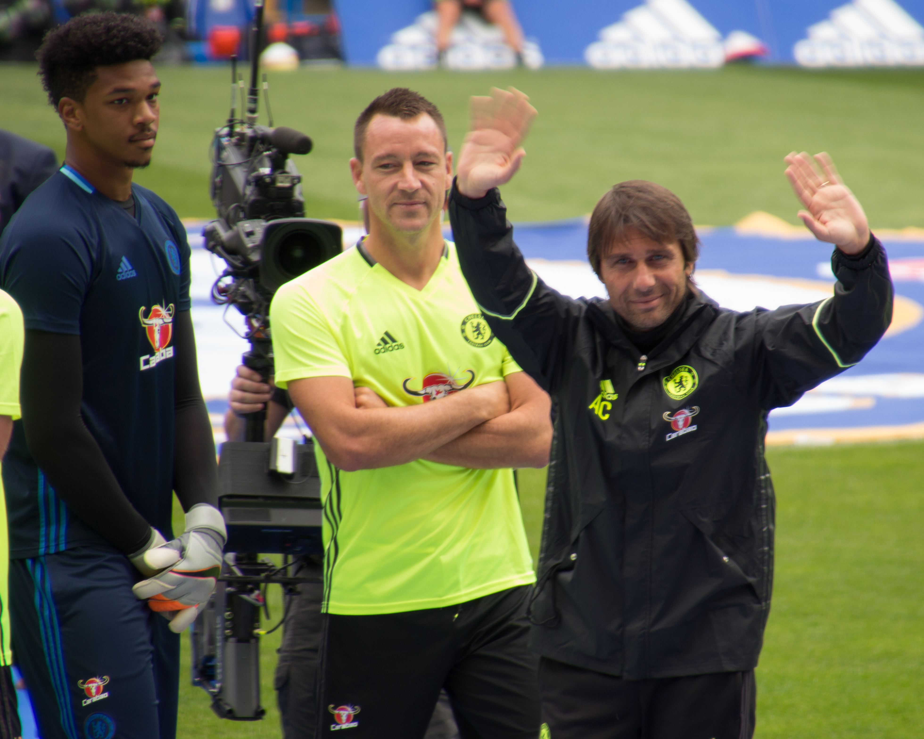 Antonio Conte, Chelsea Open Training Day 2016/17